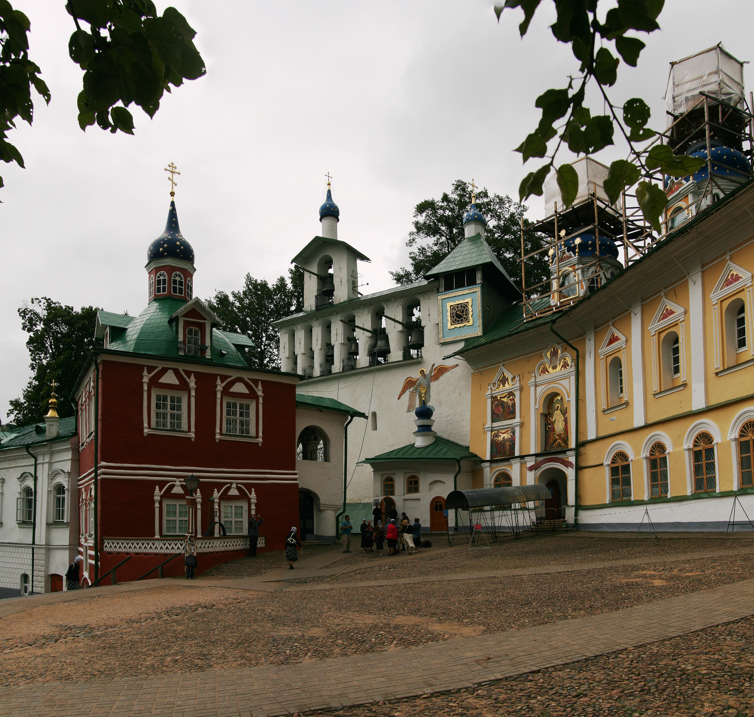 Sacristy and Belfry in Pskovo-Pechersky Monastery, Pechory, Pskov oblast